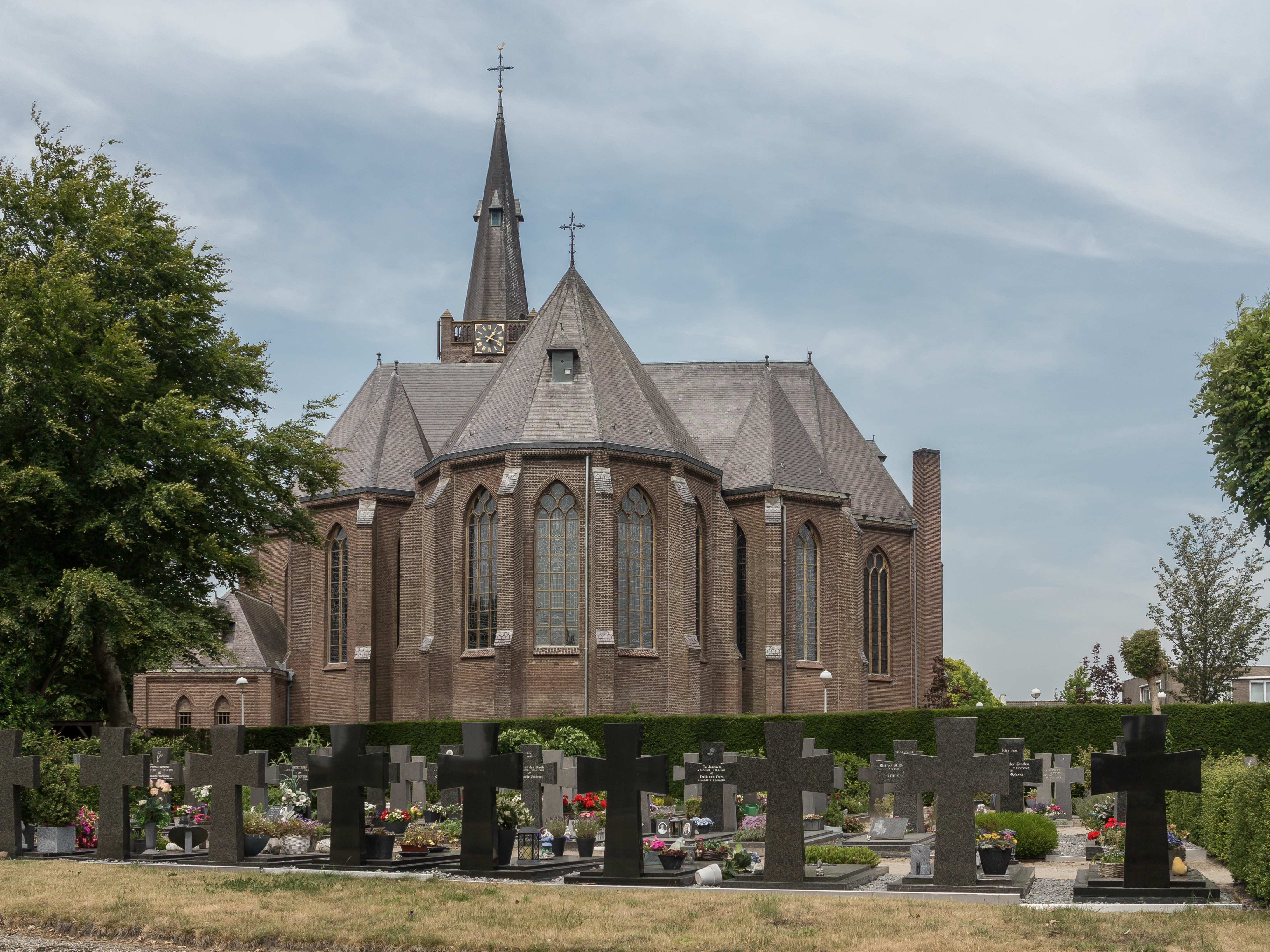 Rijsbergen, church (de Sint Bavokerk) and church yard